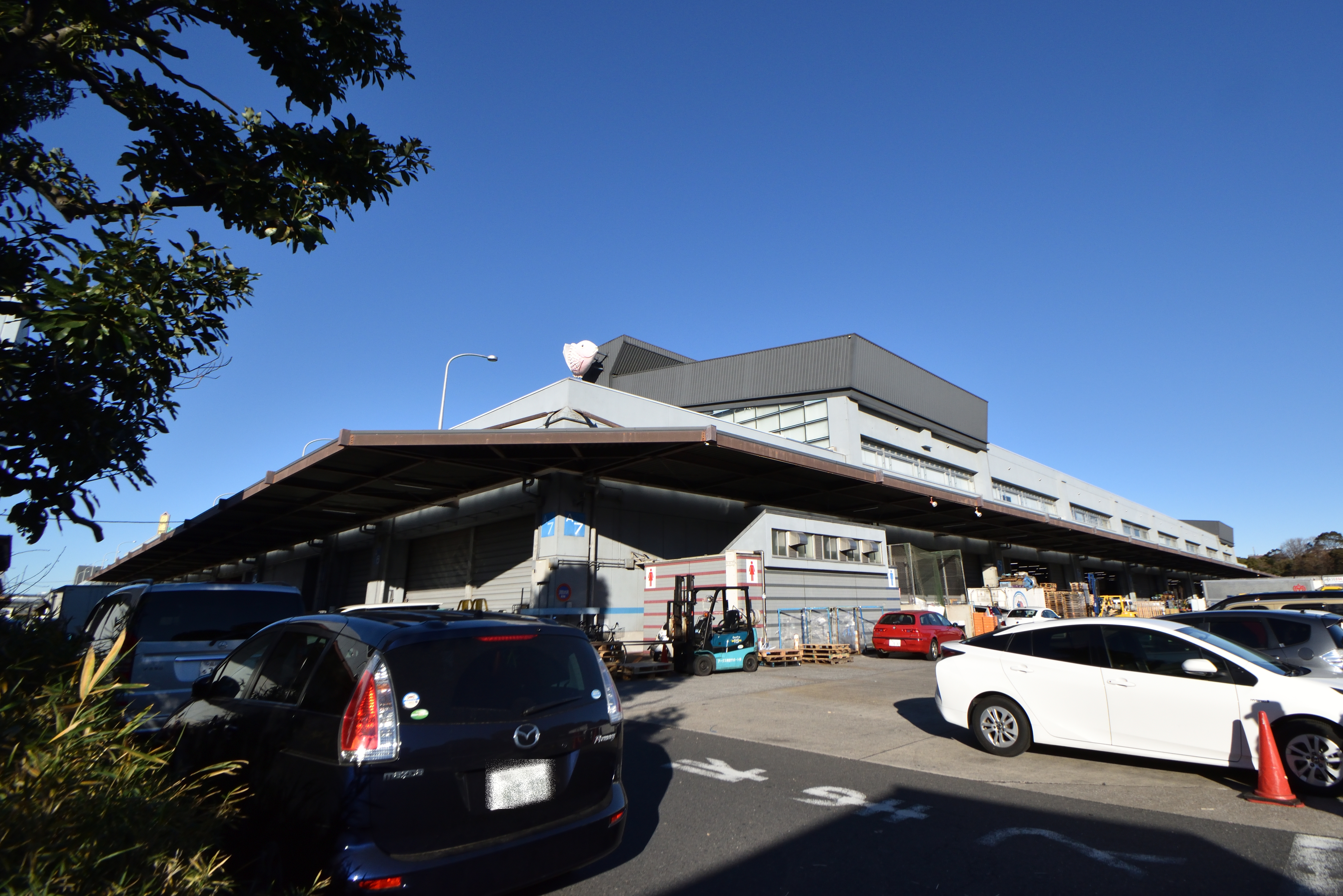 The fish market building of the Ōta Wholesale Market in Ōta, Tokyo.